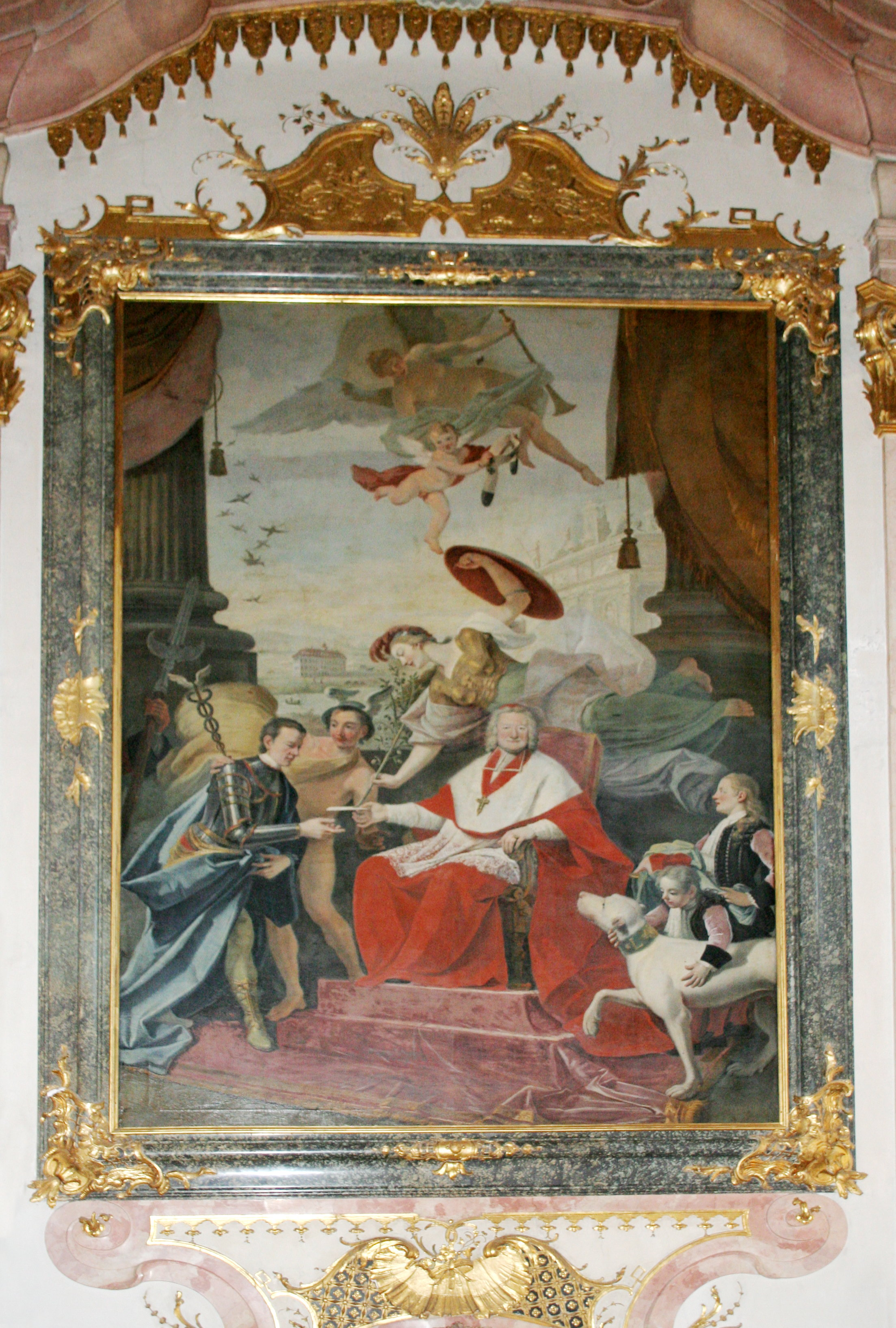 Archbishop Leopold Anton von Firmian of Salzburg gives castle Leopoldskron to his nephew.